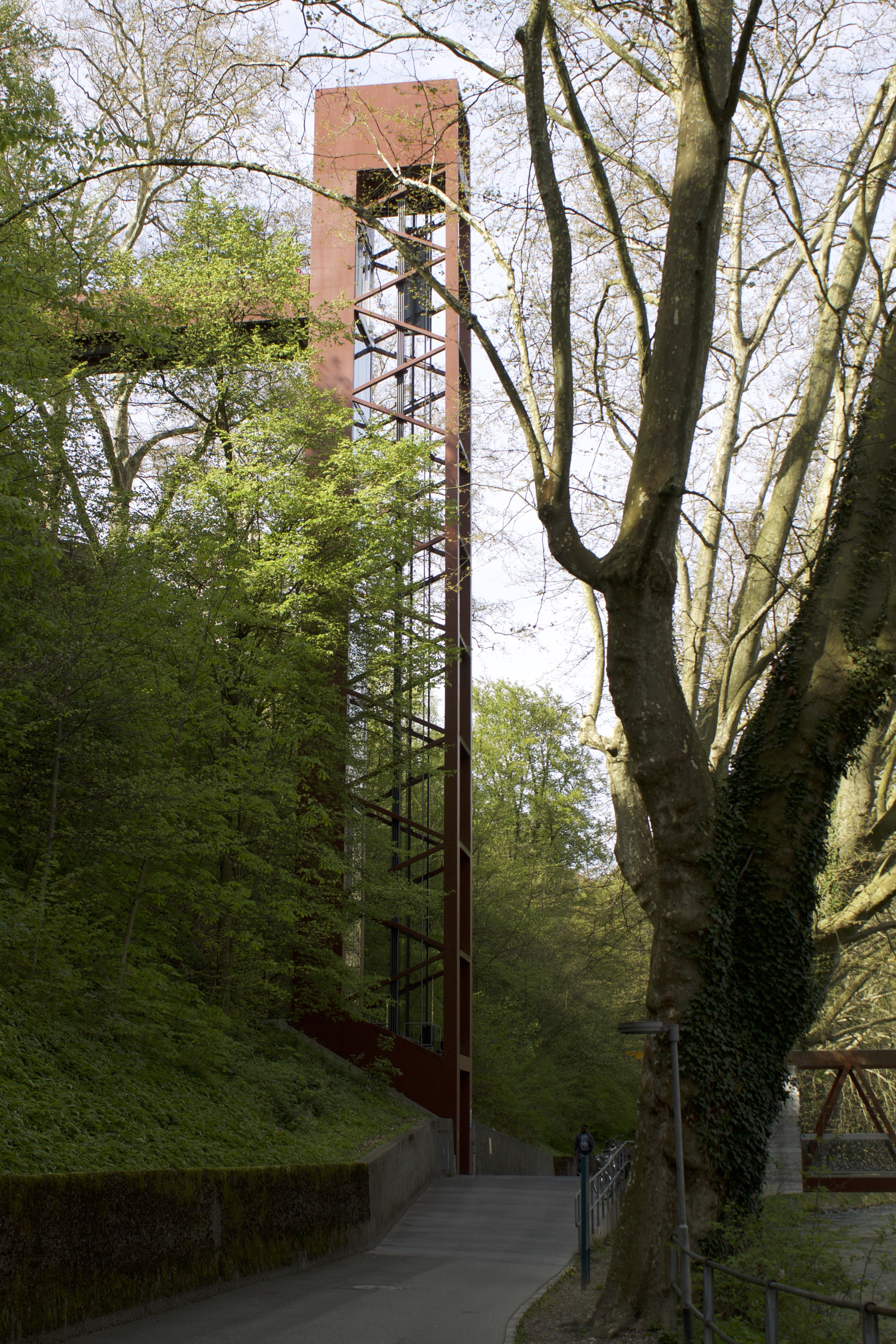 "Promenade lift" between the Limmat promenade and the station square in Baden, Switzerland